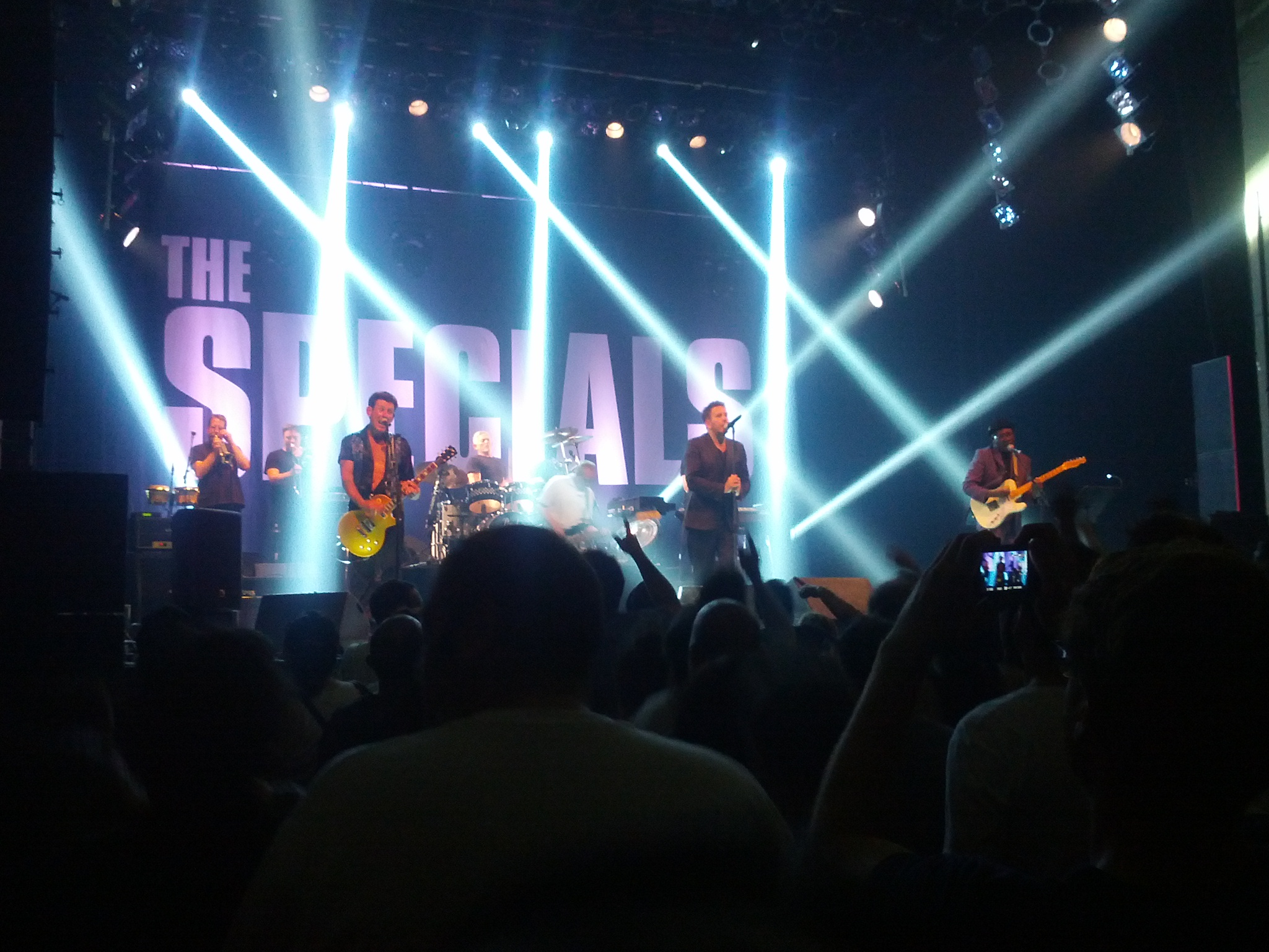 The Specials playing at Métropolis on 7 July 2013 during Montreal International Jazz Festival.